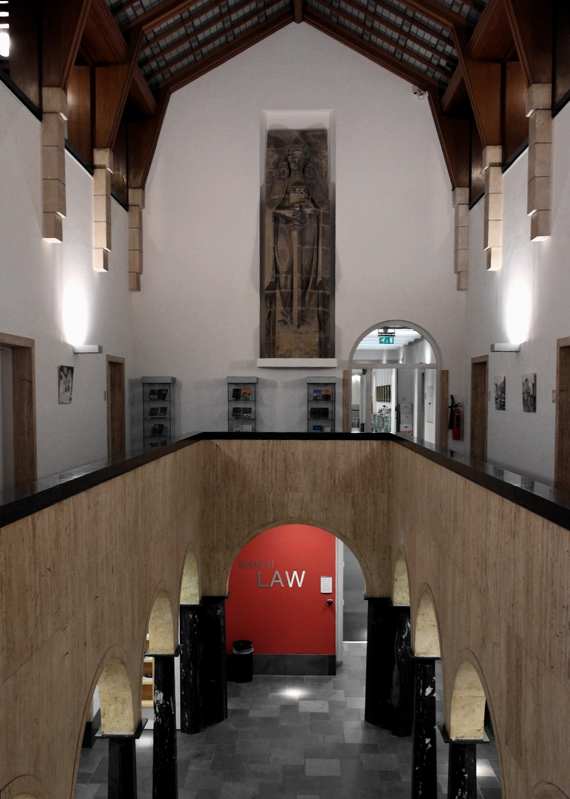 Maastricht, the Netherlands. Interior of former provincial government administration building (Oud Gouvernement), now housing the University of Maastricht's Faculty of Law. View from the gallery of main entrance hall on the Bouillonstraat side.